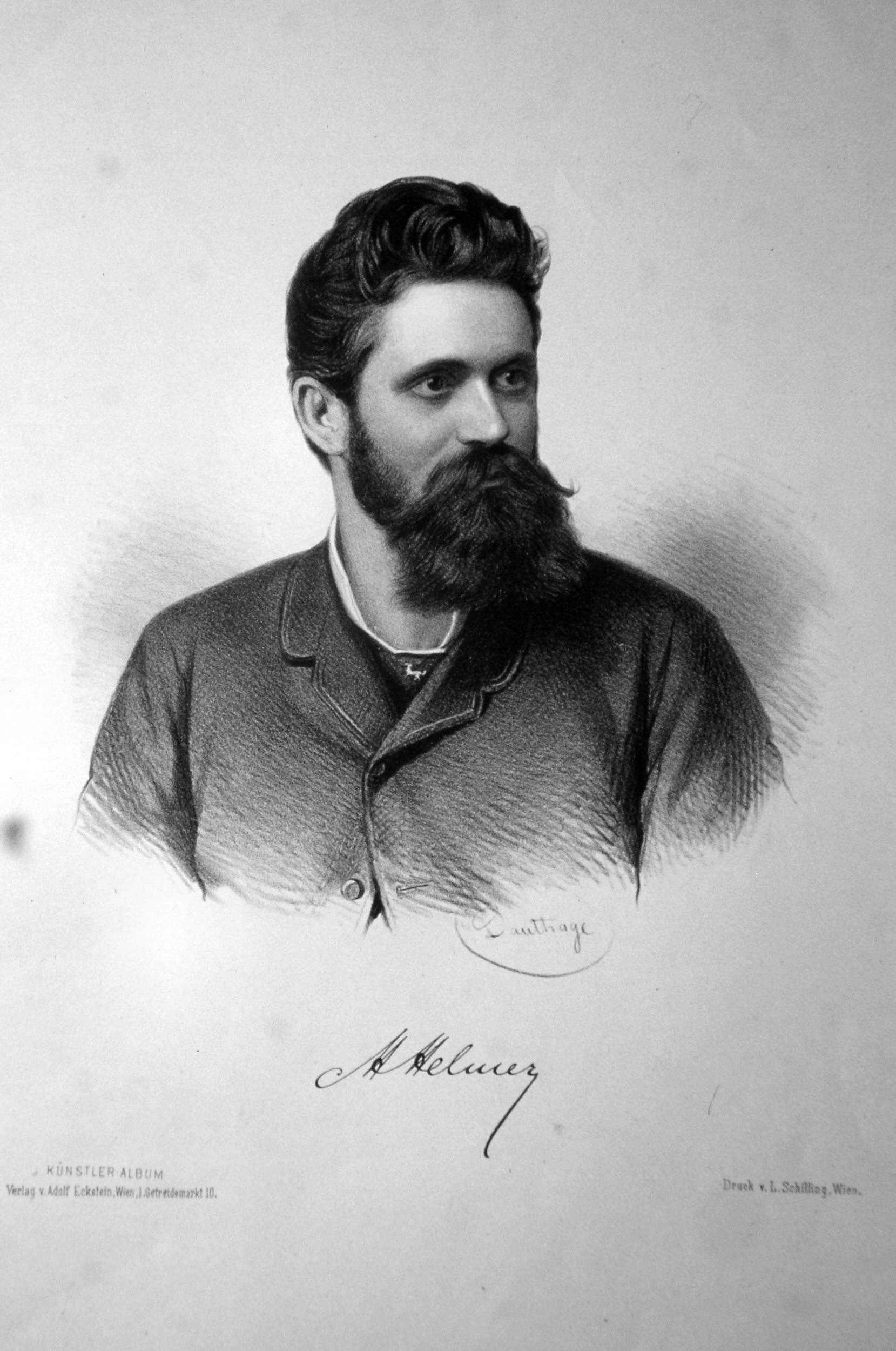 Hermann Helmer (1849-1919), Architect. Lithograph by Adolf Dauthage, from "Künstler Album", published by A. Eckstein, Vienna